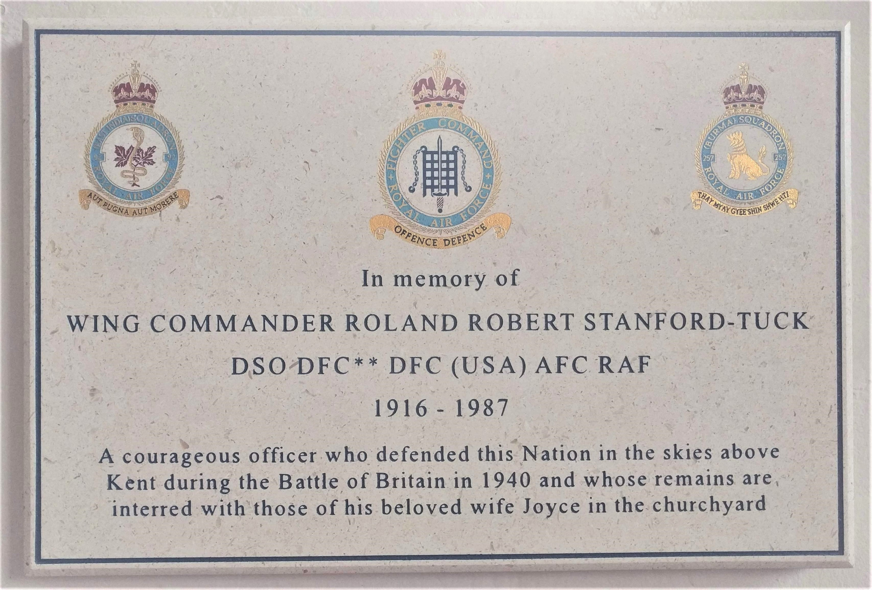 Plaque in St Clements Church Sandwich, Kent, commemorating Wing Commander Robert Stanford Tuck.